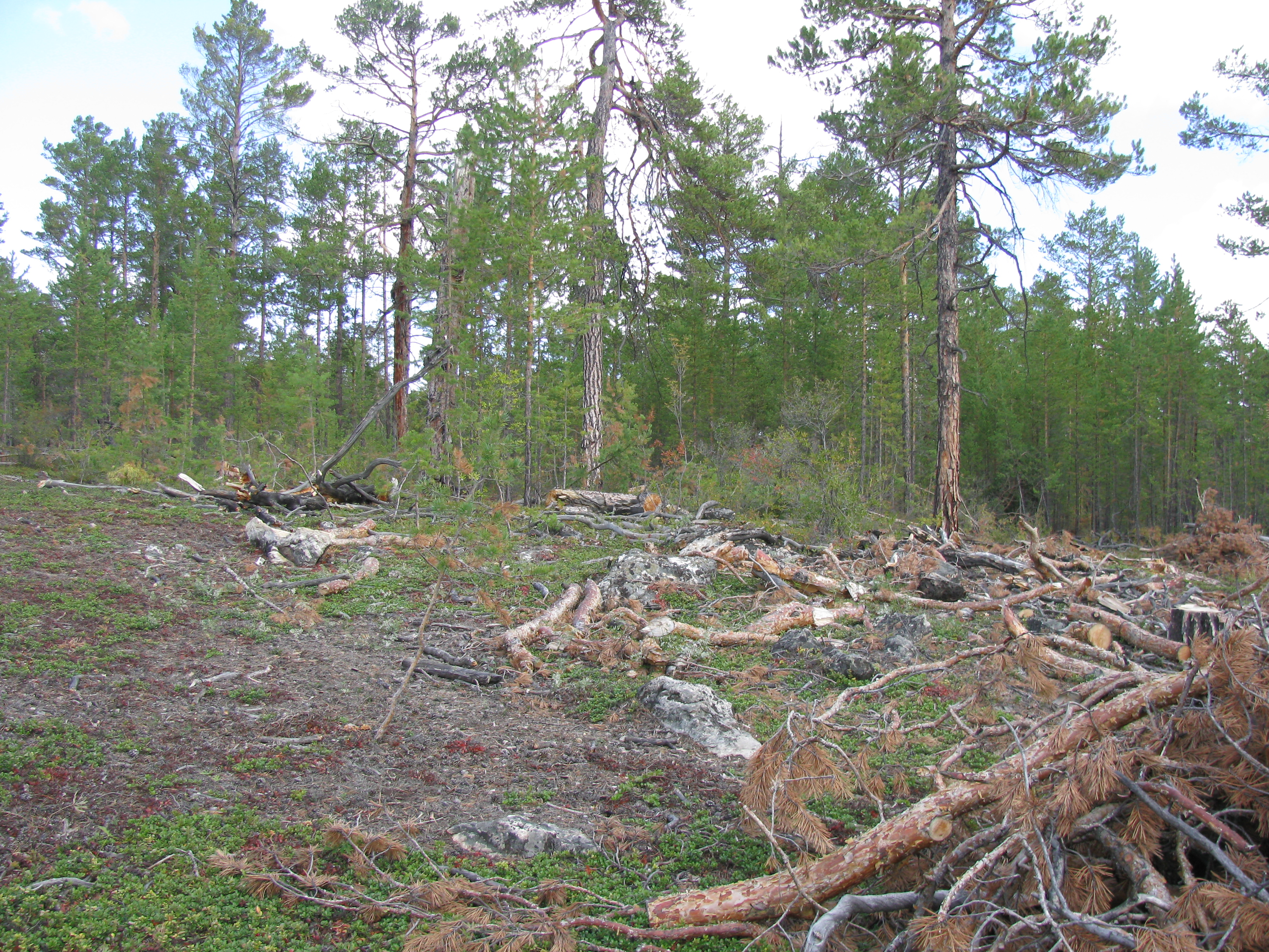 Illegal timber felling. Trees are Pinus sylvestris.